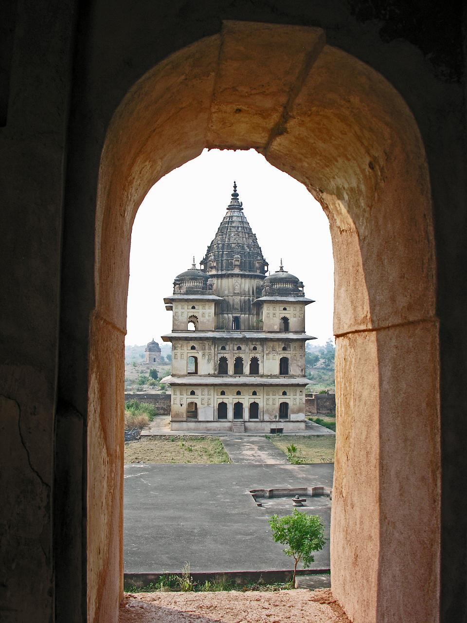 Looking from inside of one cenotaph to another, Orchha, Madhya Pradesh, India Fifteen cenotaphs to the Bundela Kings and members of their clan are located on the southern bank of River Betwa. These include the chhatries of Madhukar Shah, Vir Singh Deo, Jashwant Singh, Udait Singh, Pahar Sing and others. Most of the cenotaphs are designed in Panchaytan style. They are constructed on an elevated square platform. The sanctum is square shaped and in the center. The upper portion has been made angular with arches. The peek of the sanctum, sanctorum is patterned in Nagar style of temple architecture.